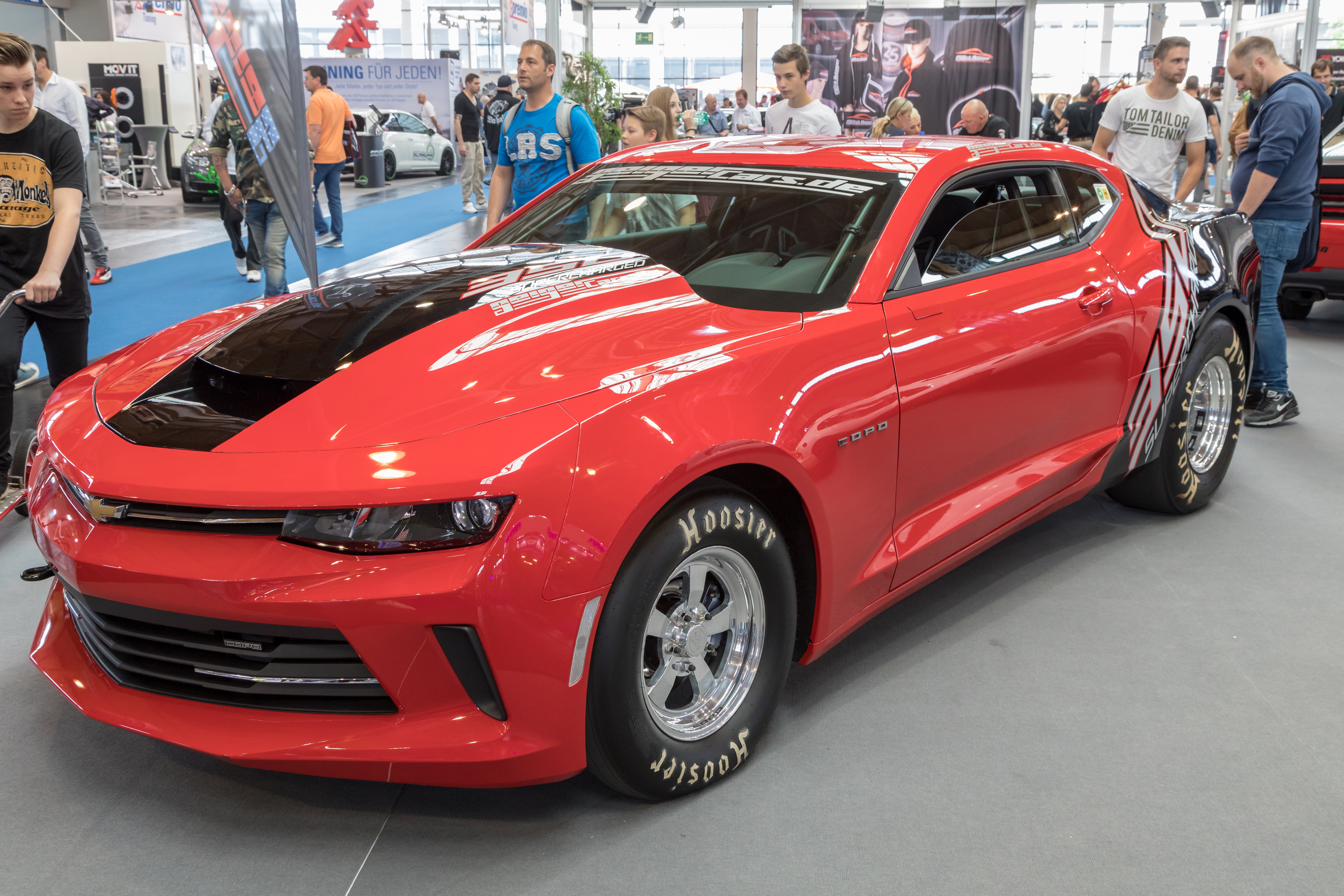 Tuning World Bodensee 2018